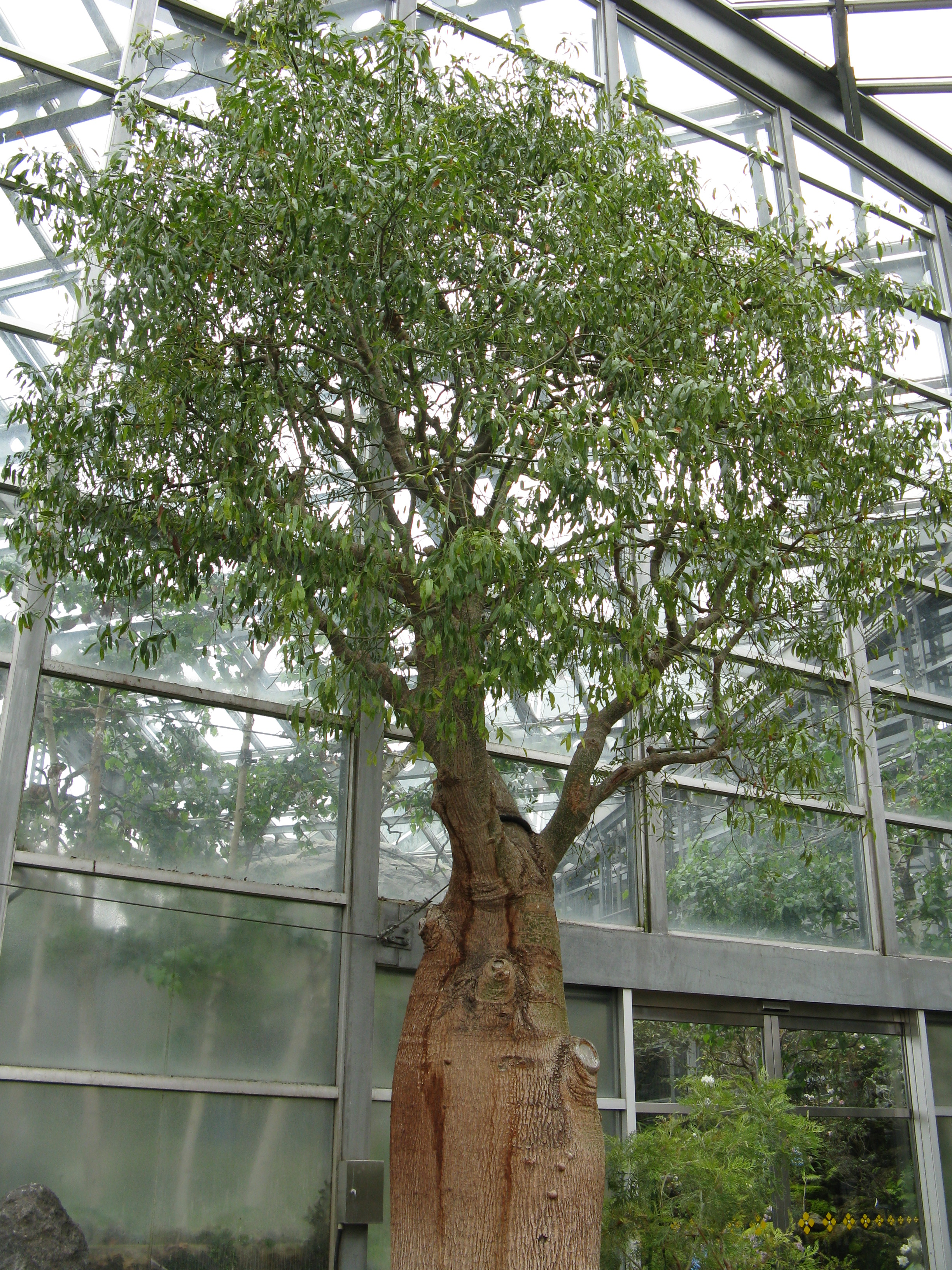 Brachychiton rupestri